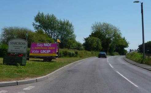 Starcross : The Strand, UKIP Poster & Starcross Sign